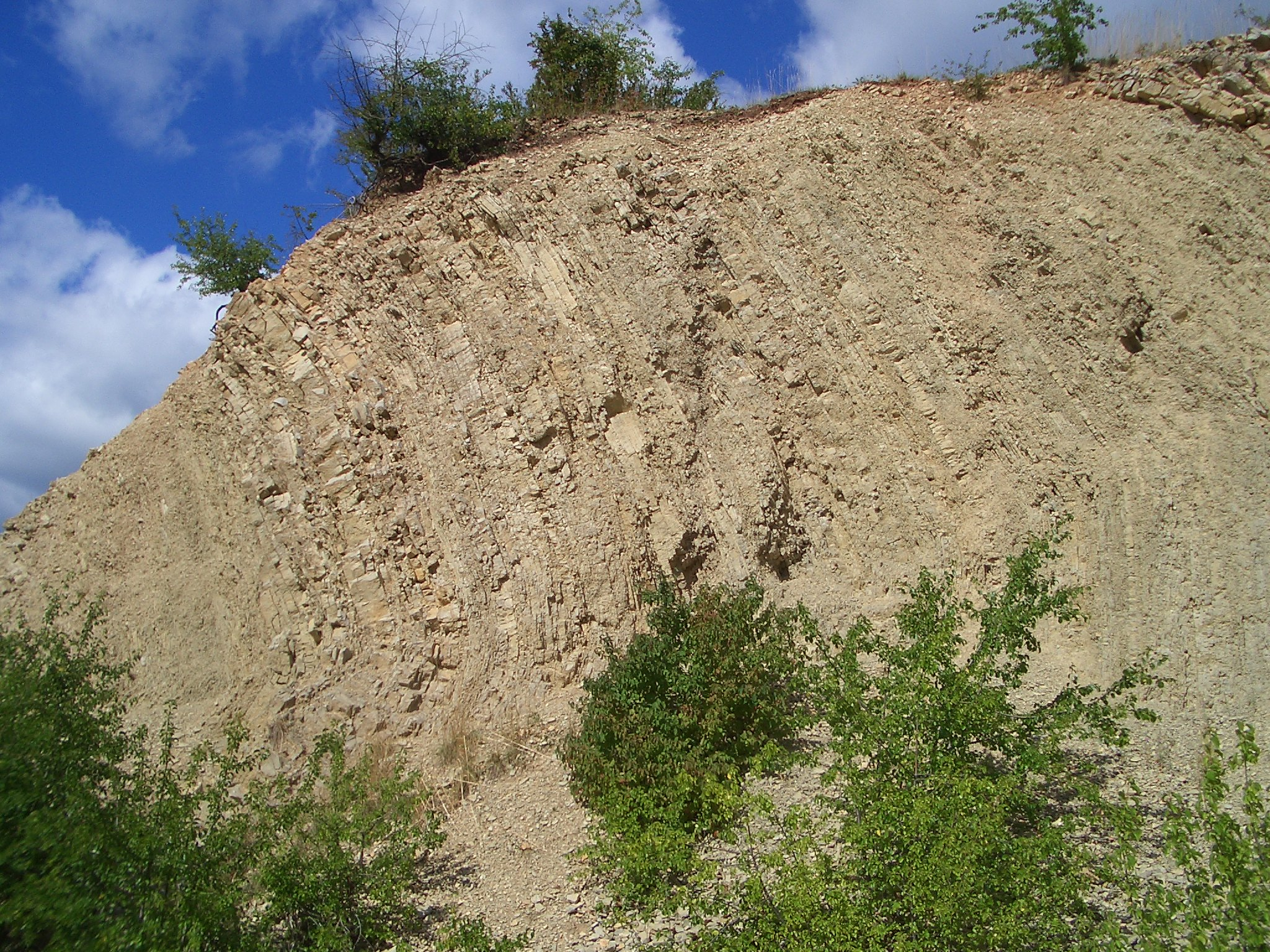 Steeply tilted beds of the Muschelkalk series (Middle Triassic) at the Bückeberg hill near Gernrode, northern periphery of Hartz Mts., Saxony-Anhalt, Central Germany.